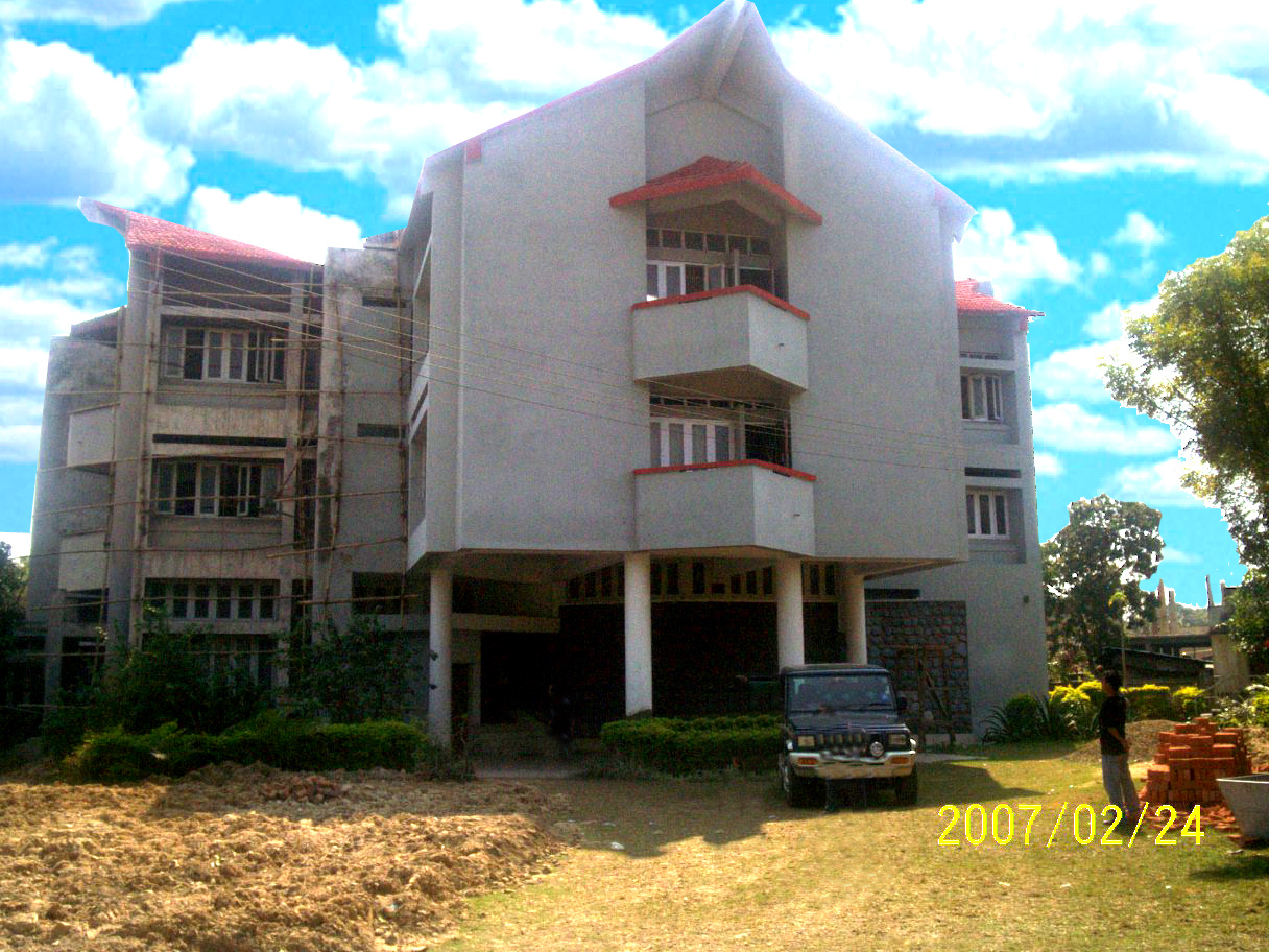 Global Open University Campus